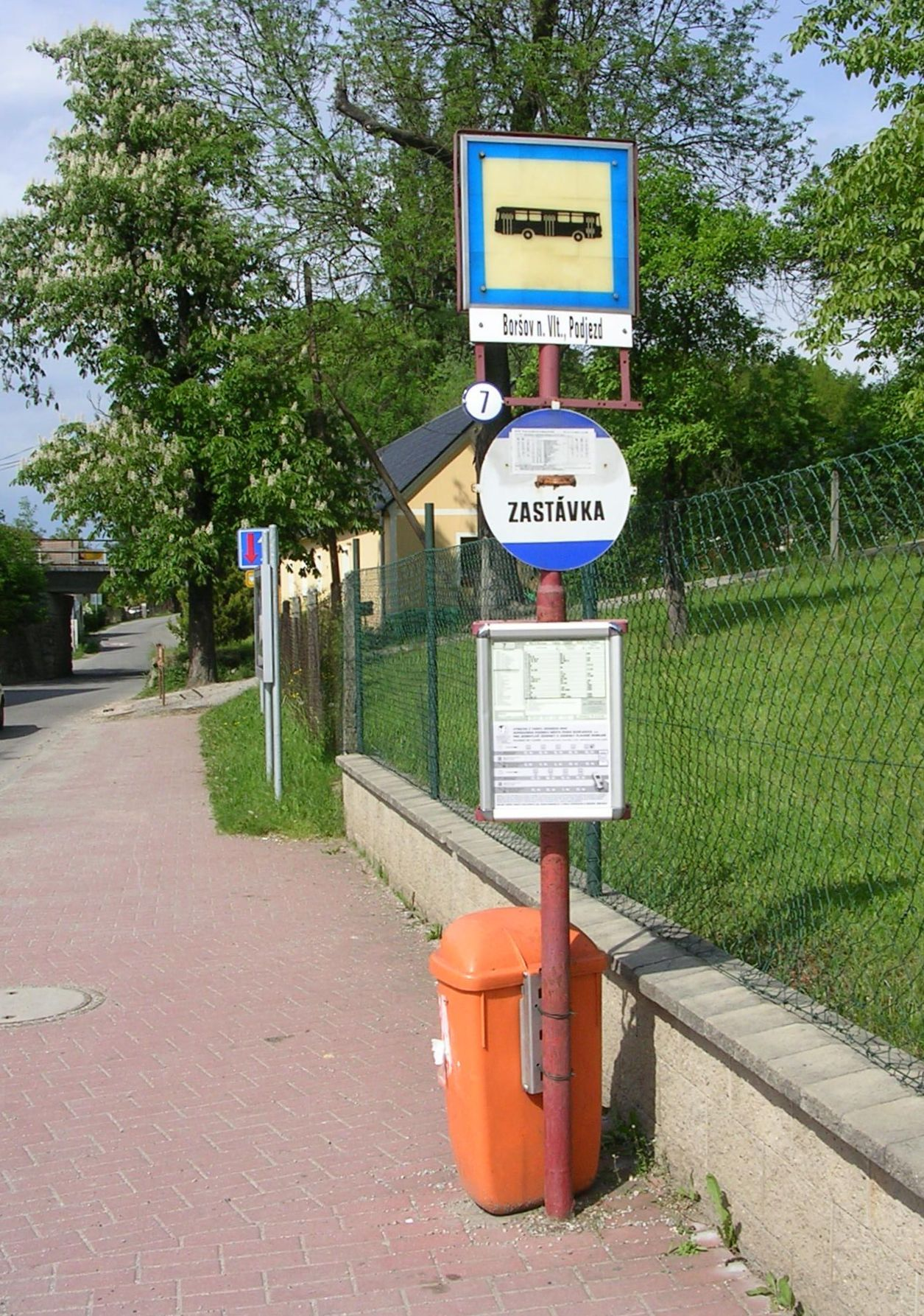 Boršov nad Vltavou, České Budějovice District, South Bohemian Region, the Czech Republic.